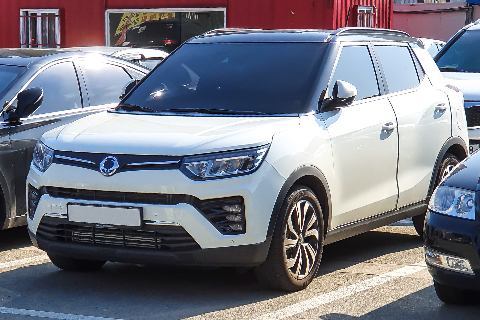 2020 SsangYong Tivoli Facelift